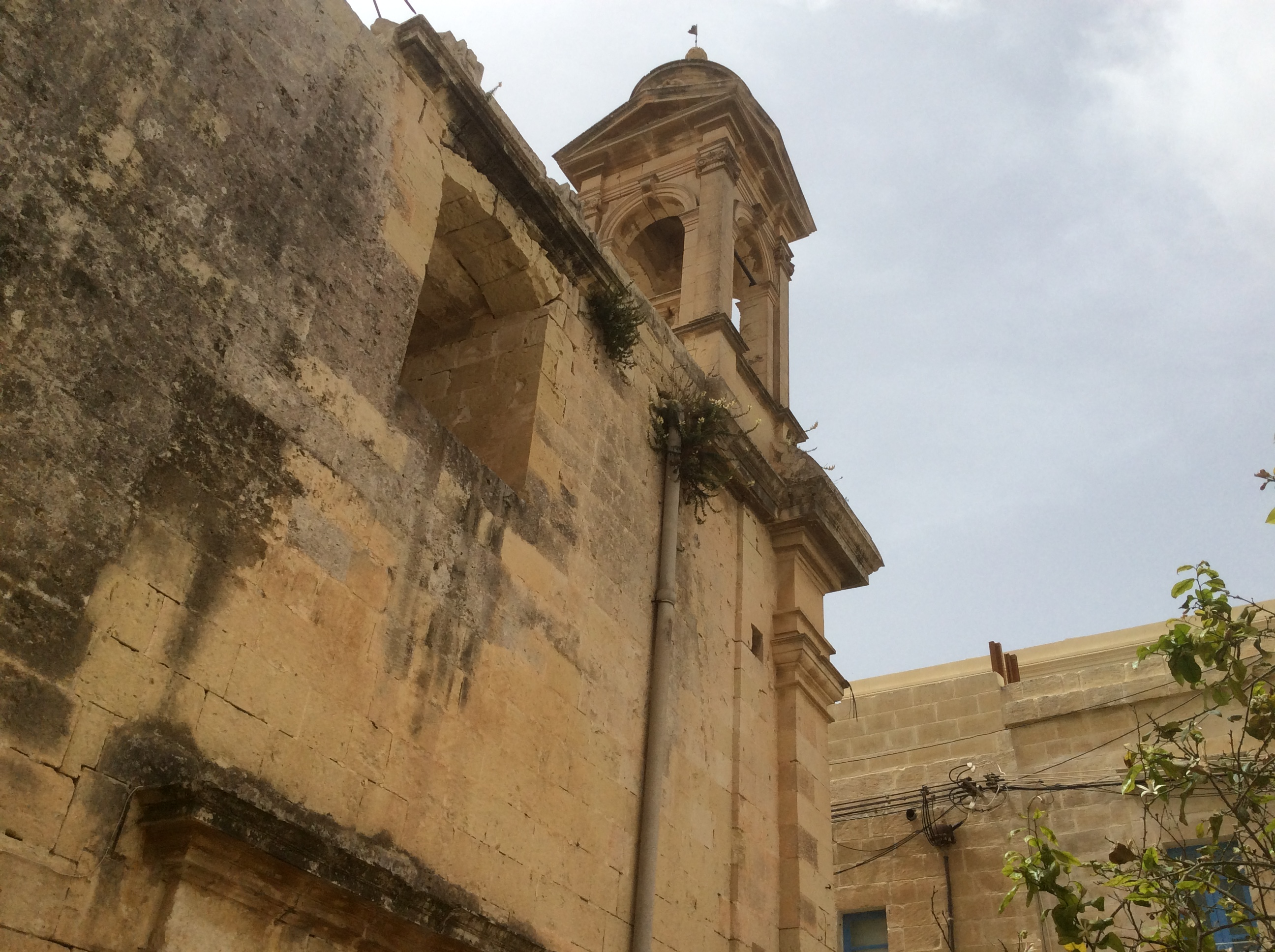 Rabat walk 2017